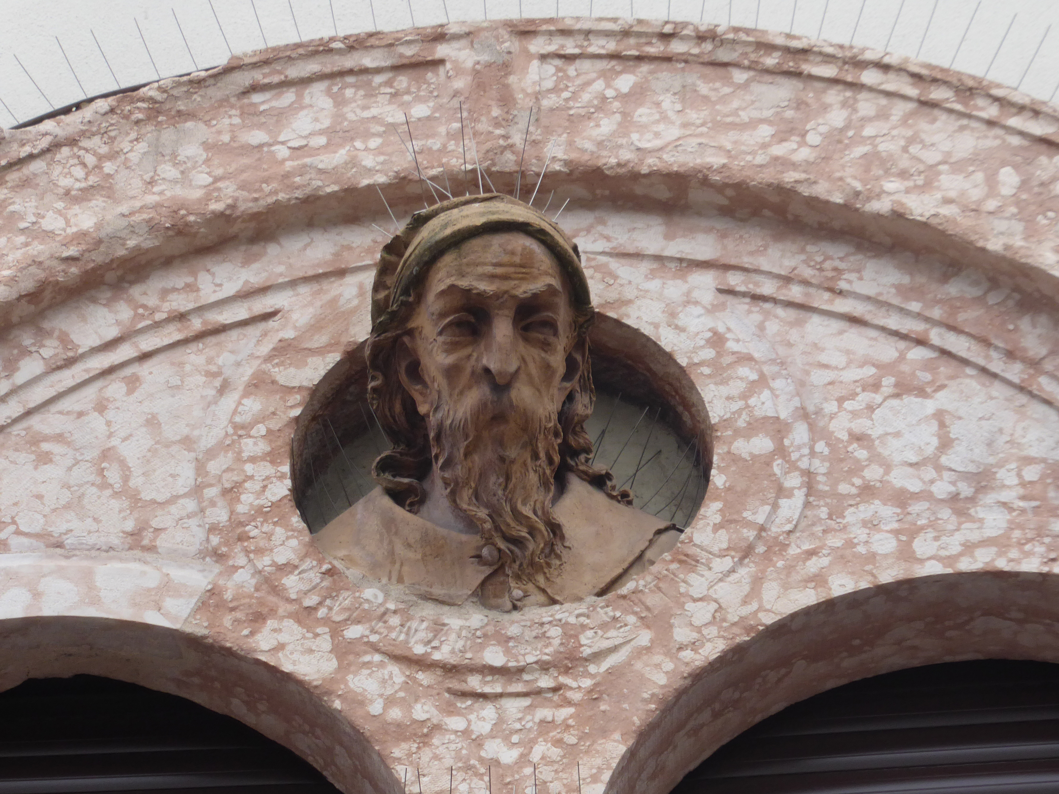 Bust of Vincenzo Grandi on the facade of Palazzo Ranzi, in Trento, by Andrea Malfatti